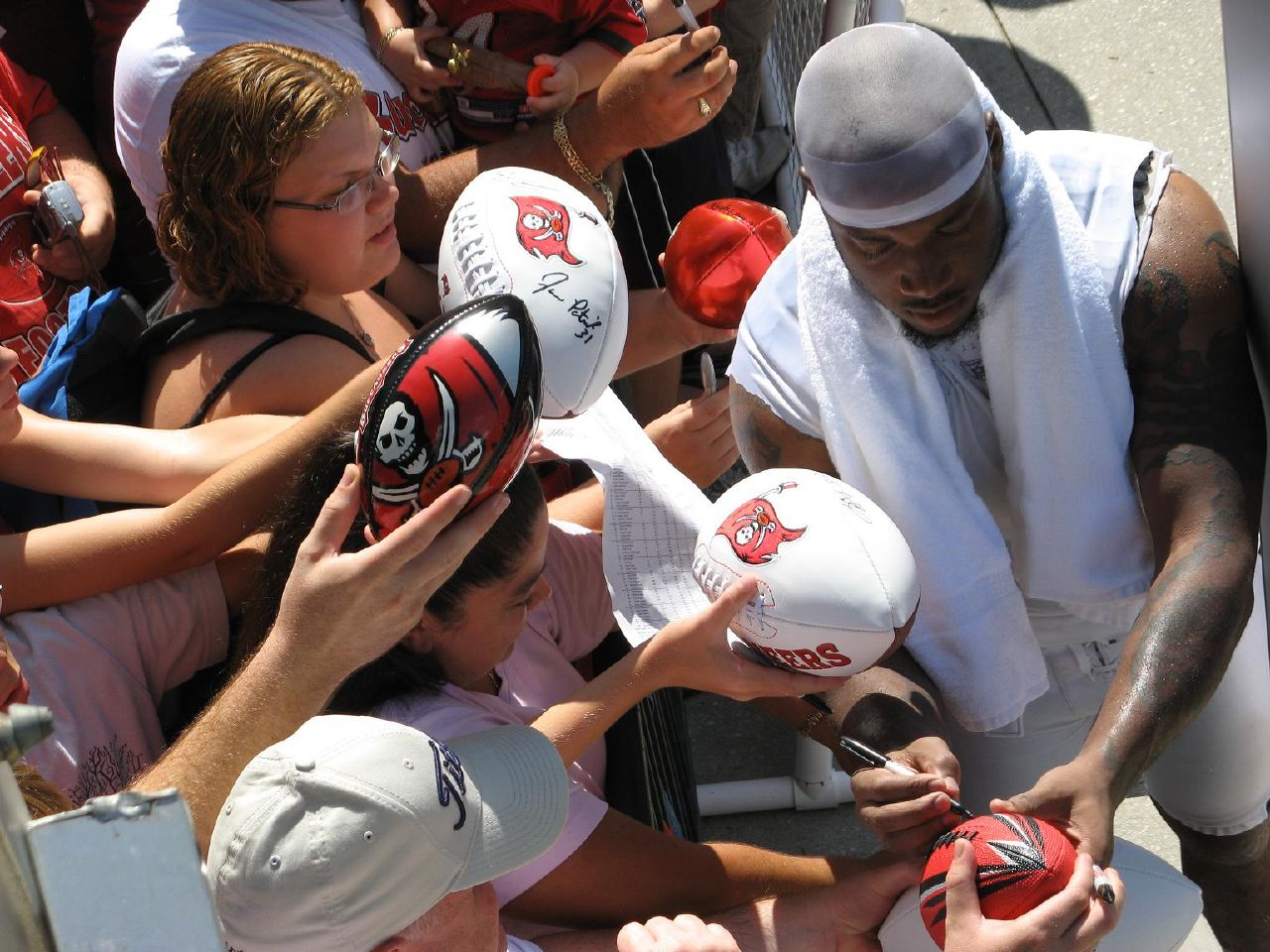 Cato June signs autographs a training camp